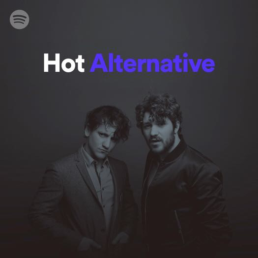 COVER OF HOT ALTERNATIVE PLAYLIST